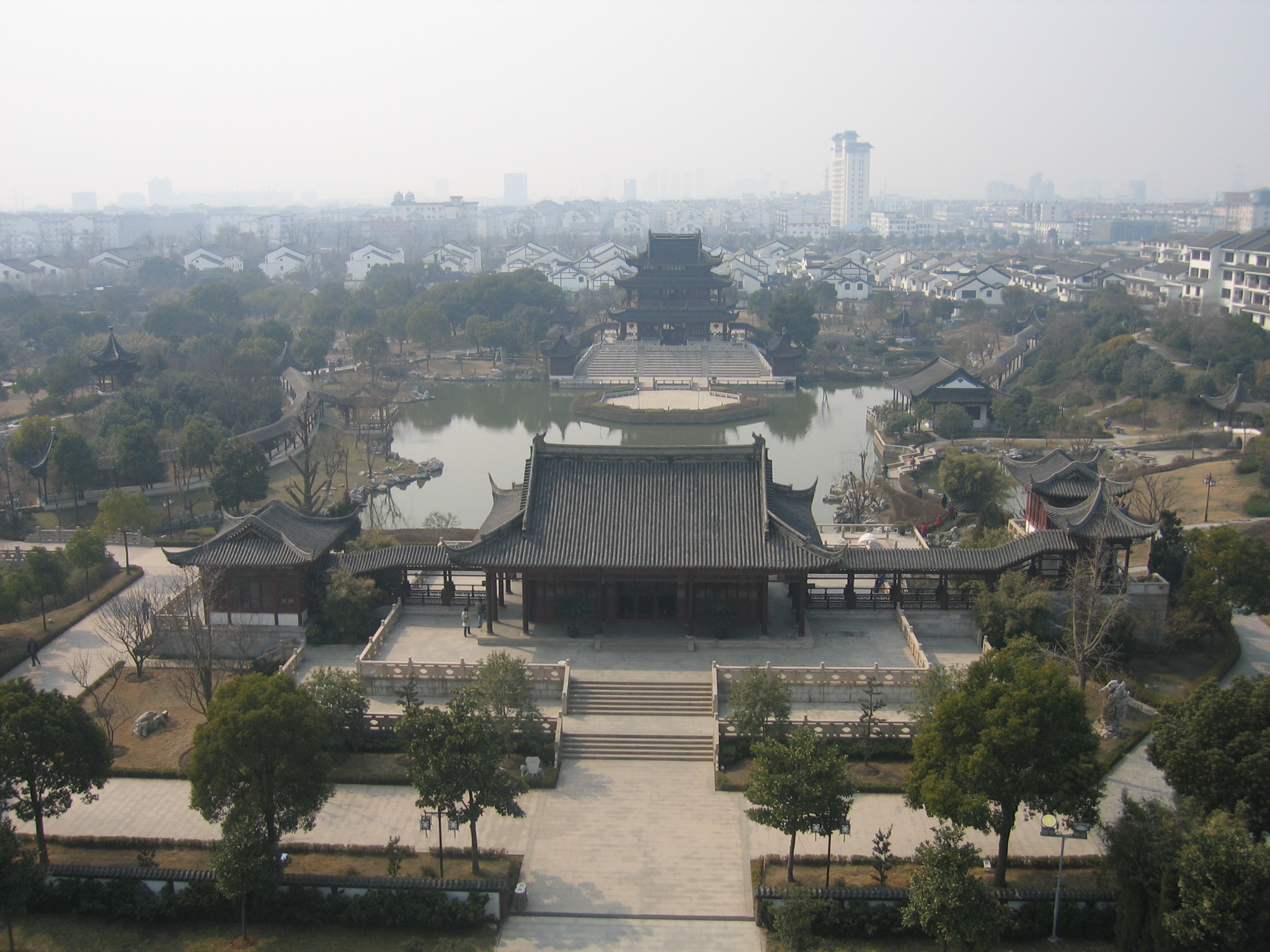 View of the Panmen Scenic Area in the south-west of the Suzhou Old Town from the Auspicious Light Pagoda.